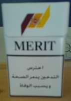 A Merit cigarette pack in Egypt.